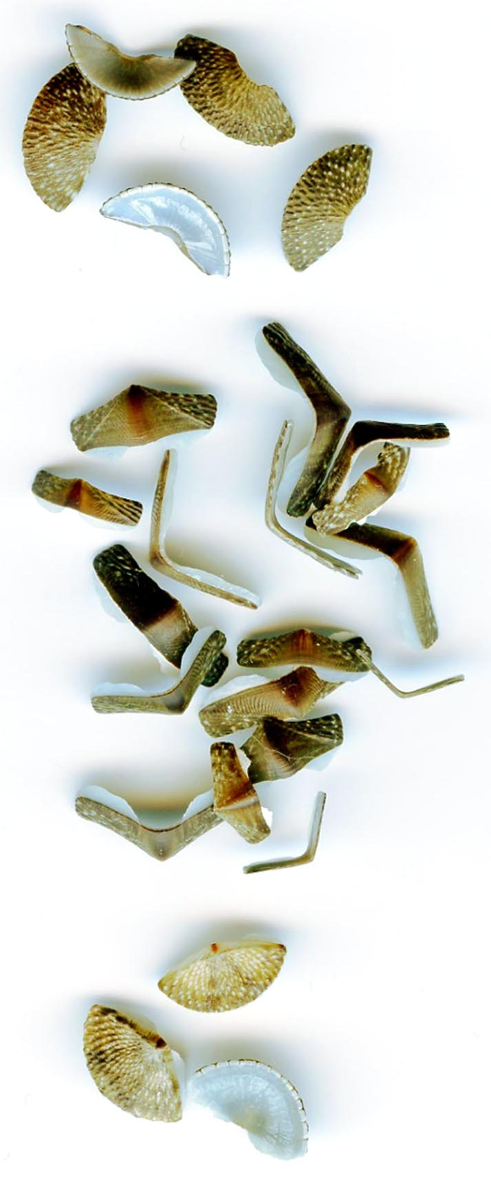 Disarticulated chiton plates of Chiton tuberculatus from the beachdrift on the island of Nevis, West Indies. The head plates are at the top, the tail plates are at the bottom, and the various intermediate plates are in between.